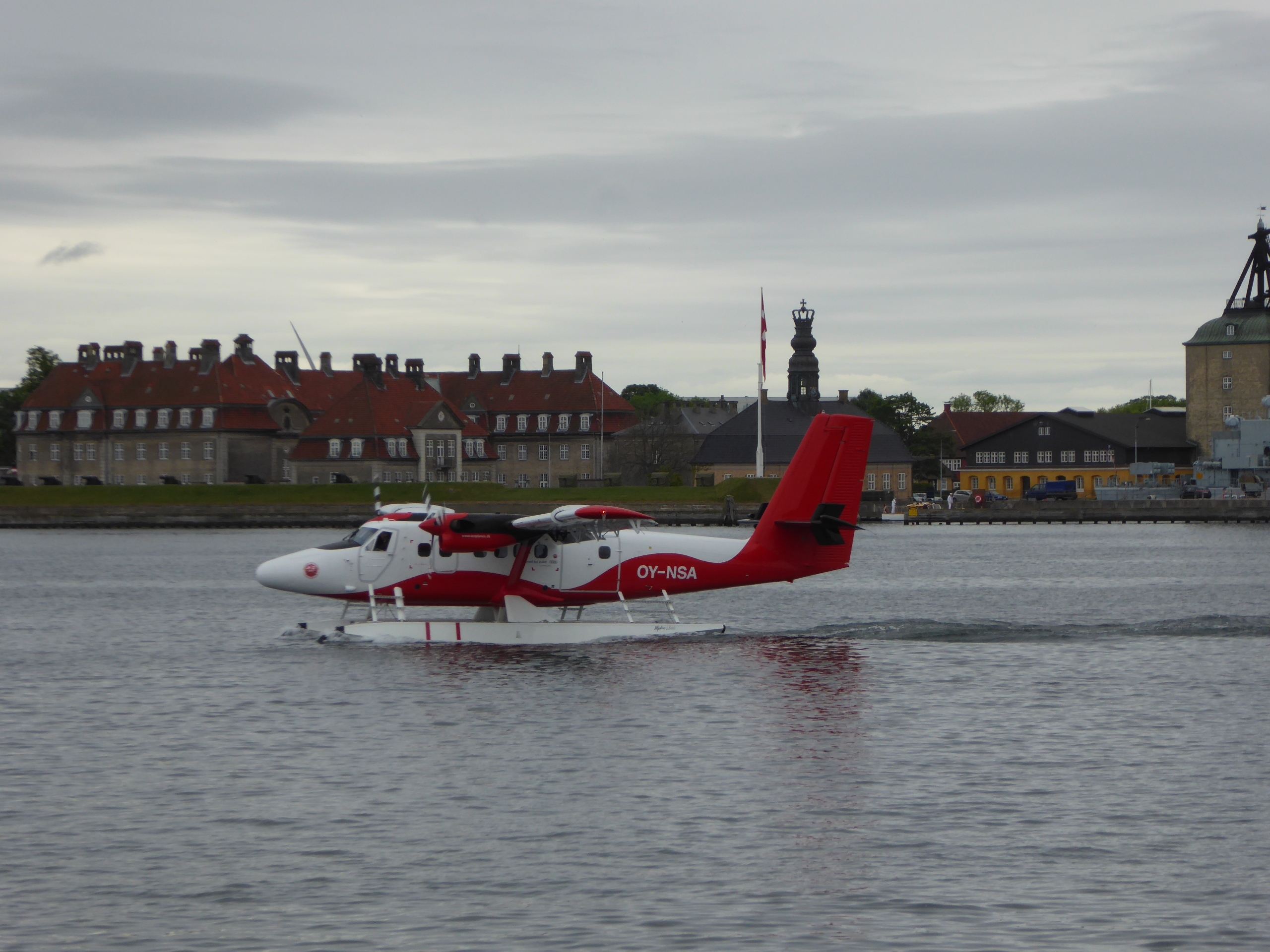 The seaplane OY-NSA of Nordic Seaplanes to Aarhus leaves the port of Copenhagen. The seaplane route between Copenhagen and Aarhus had been introduced the day before.